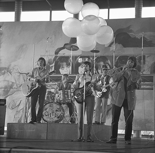 The Cats, 'Fenklub' (formerly 'Fanclub')